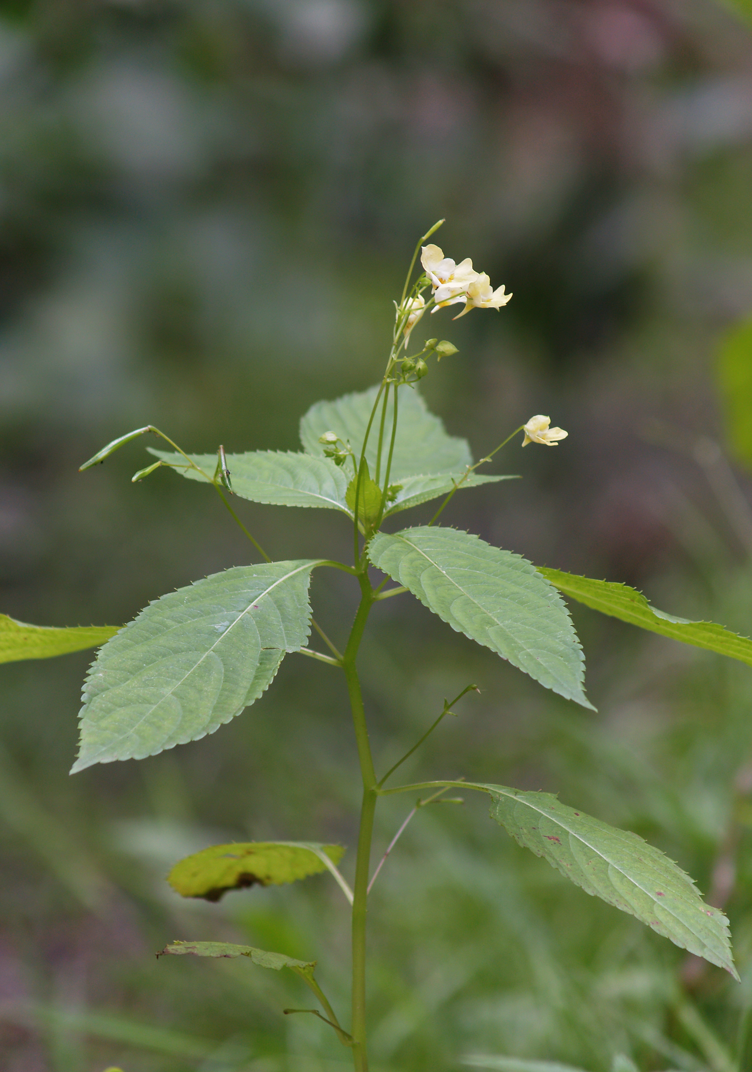 Small Balsam (Impatiens parviflora), Falkenau, Saxony, Germany